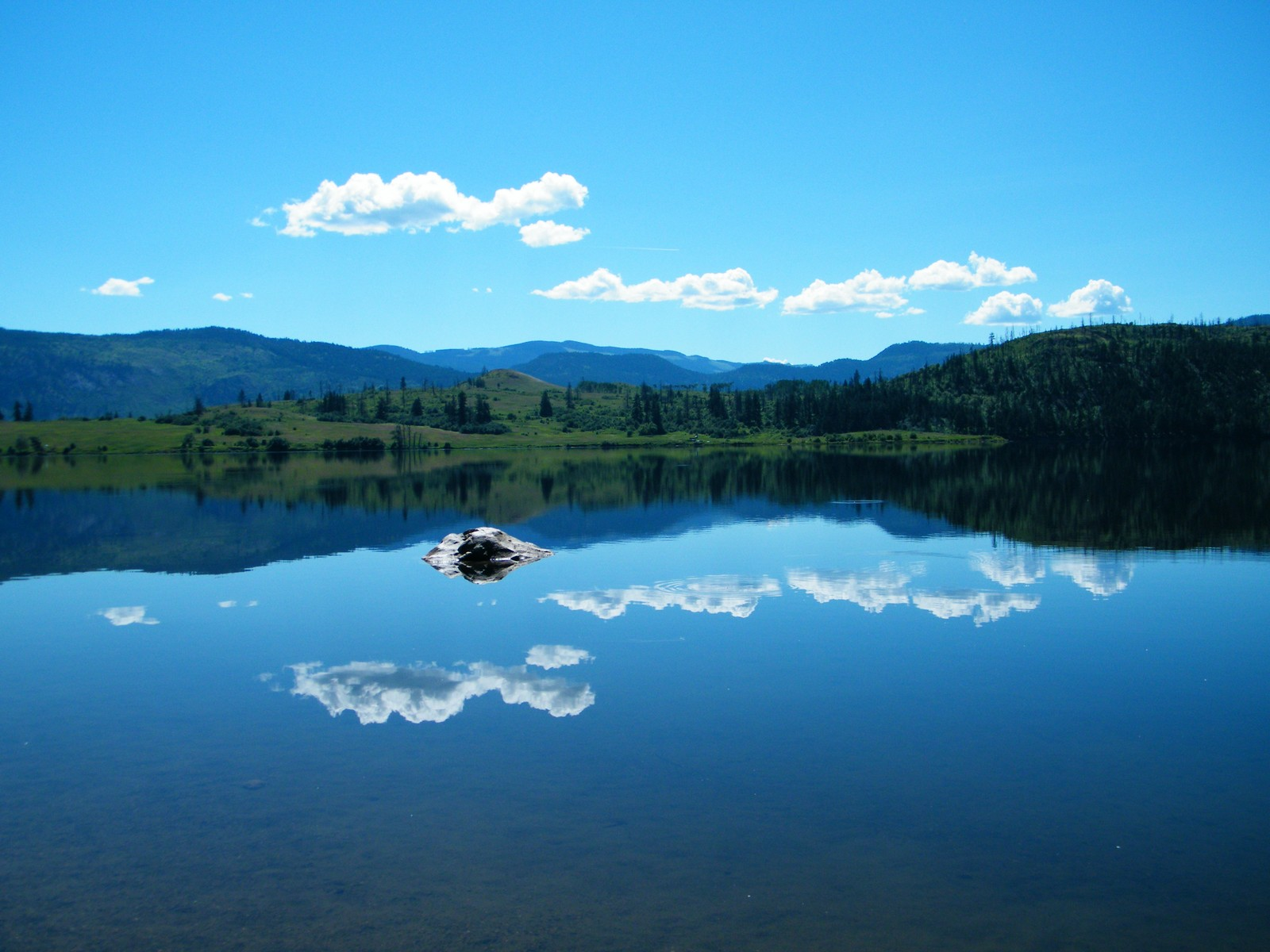 Niskonlith Lake Provincial Park from beach in campsite This photo was taken in a protected area in Canada, Wikidata item Niskonlith Lake Provincial Park (Q14874729)